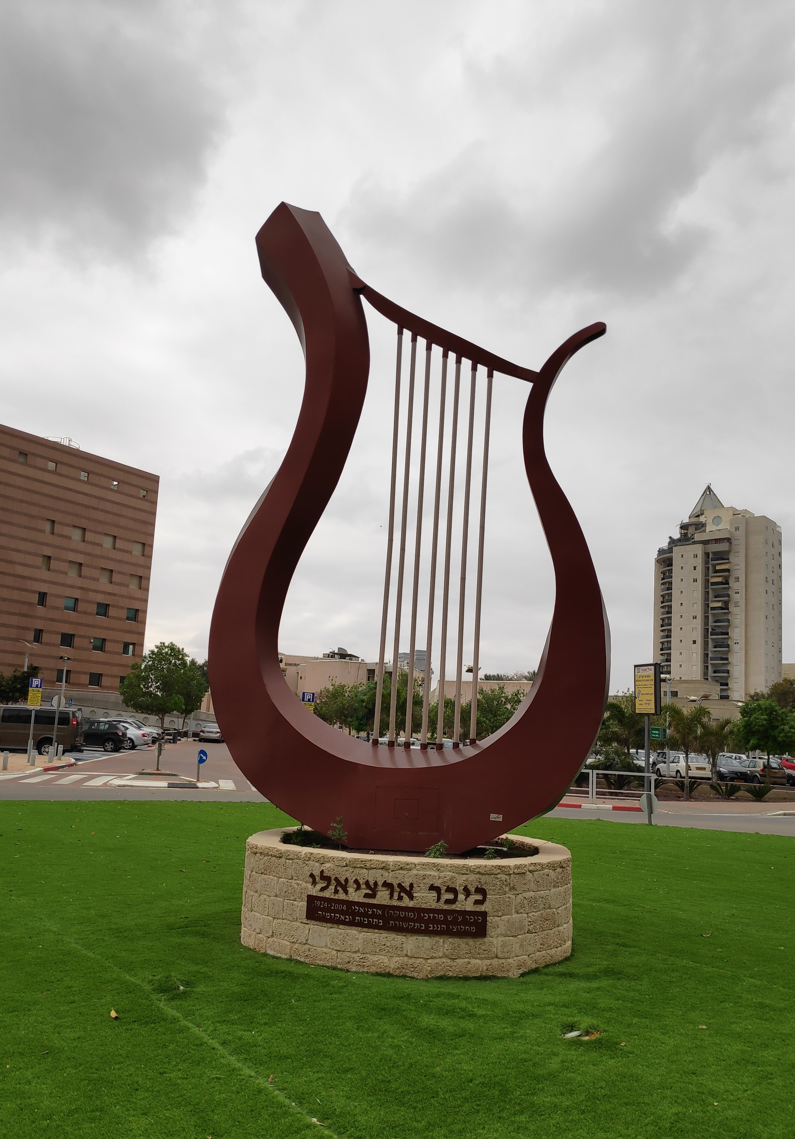 The Sculpture of the Harp in Artzieli Square, March 2019